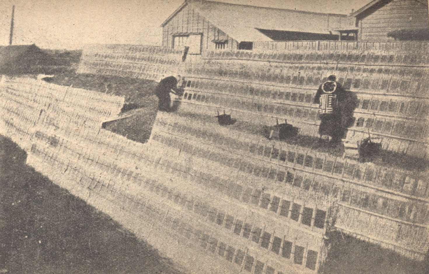 On etale l'Asaksanori en plein air pour le fair secher Subject: Algae products, Marine algae industry Tag: Aquatic Botany